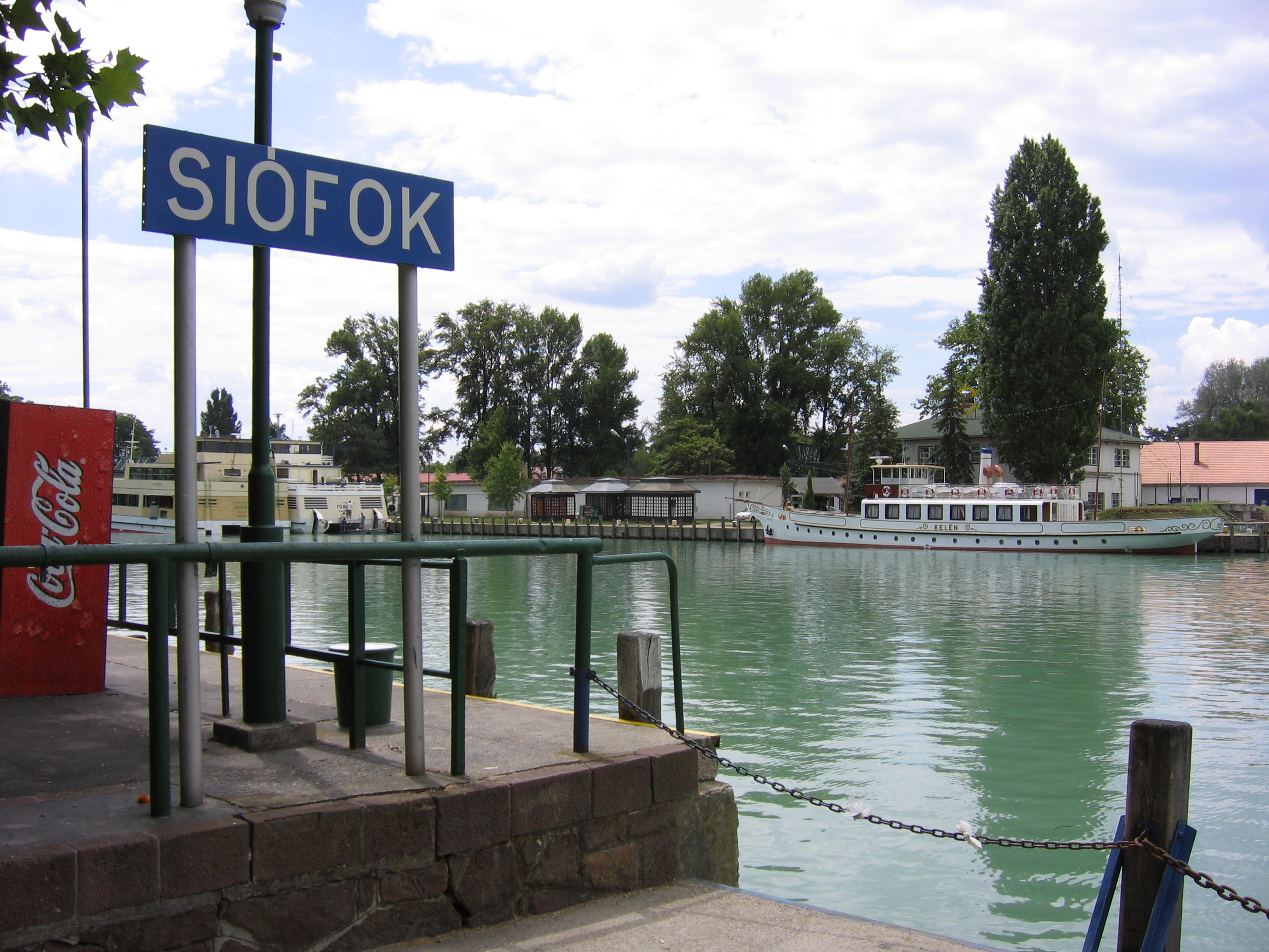 Lake Balaton